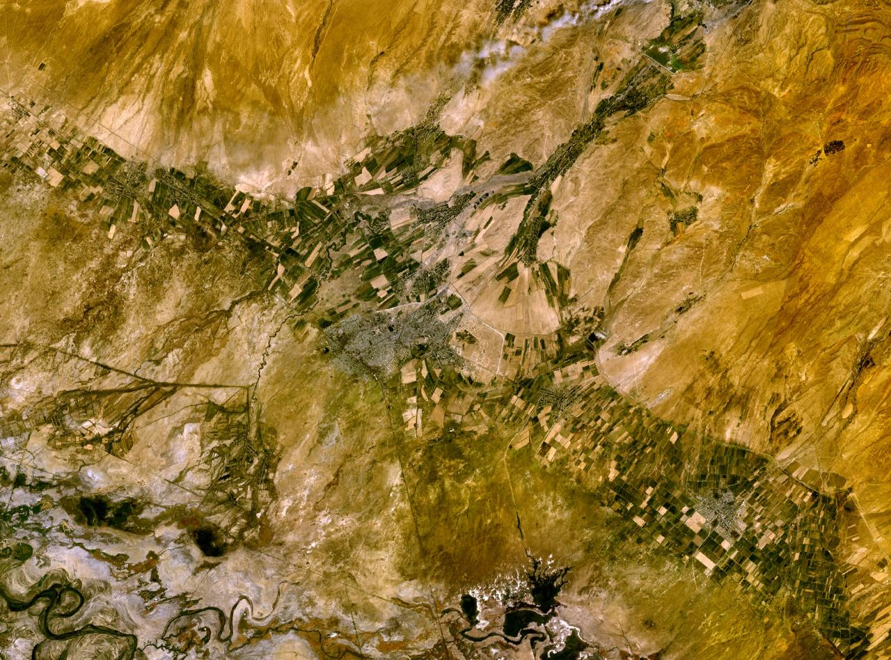 Hazrat-e Turkestan in Kazakhstan. I made this with World wind programme.